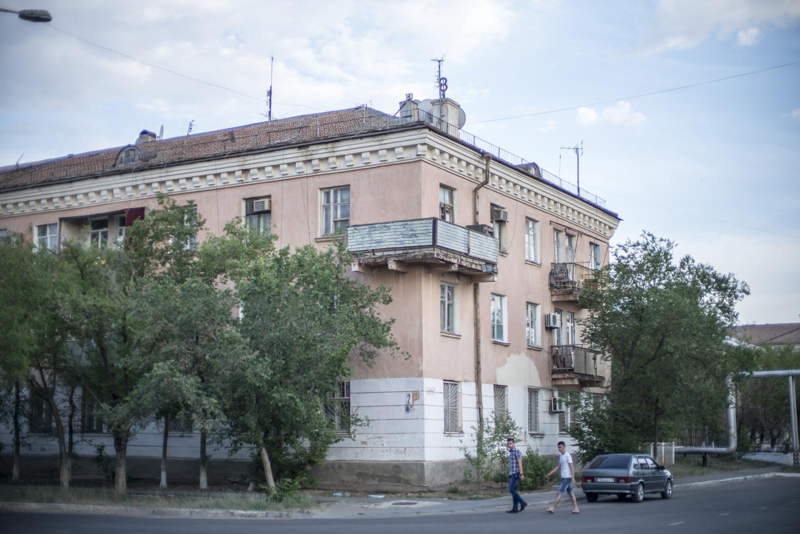 Star City